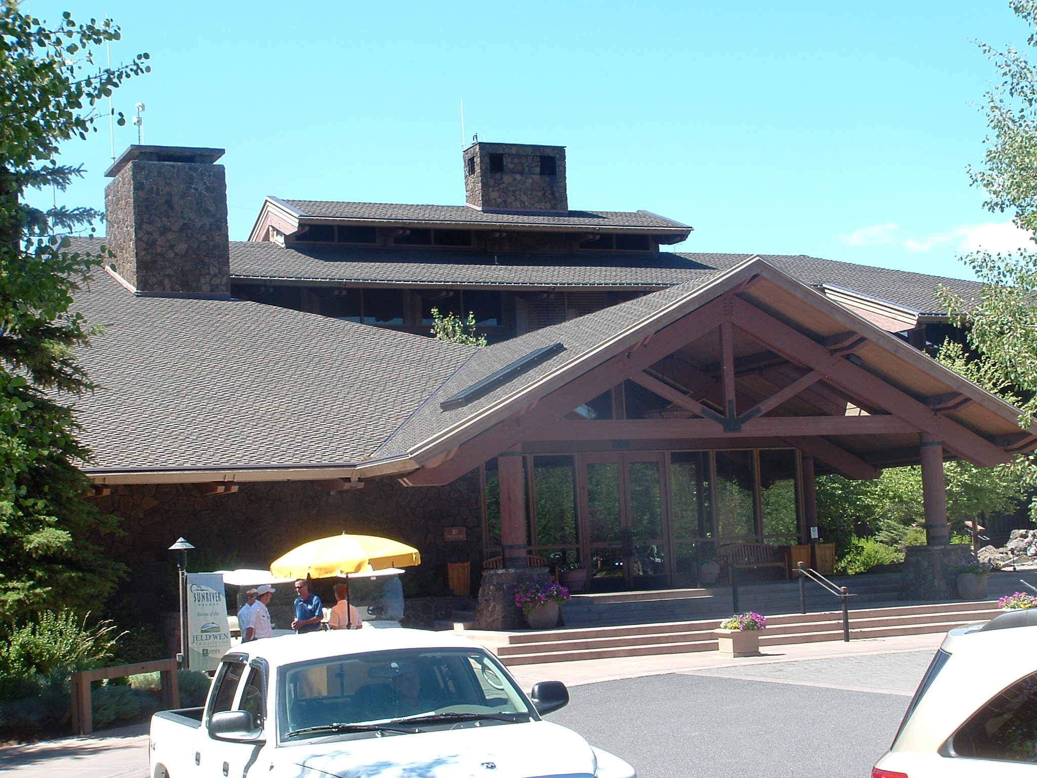 Photo taken by uploader on Aug 7th, 2007